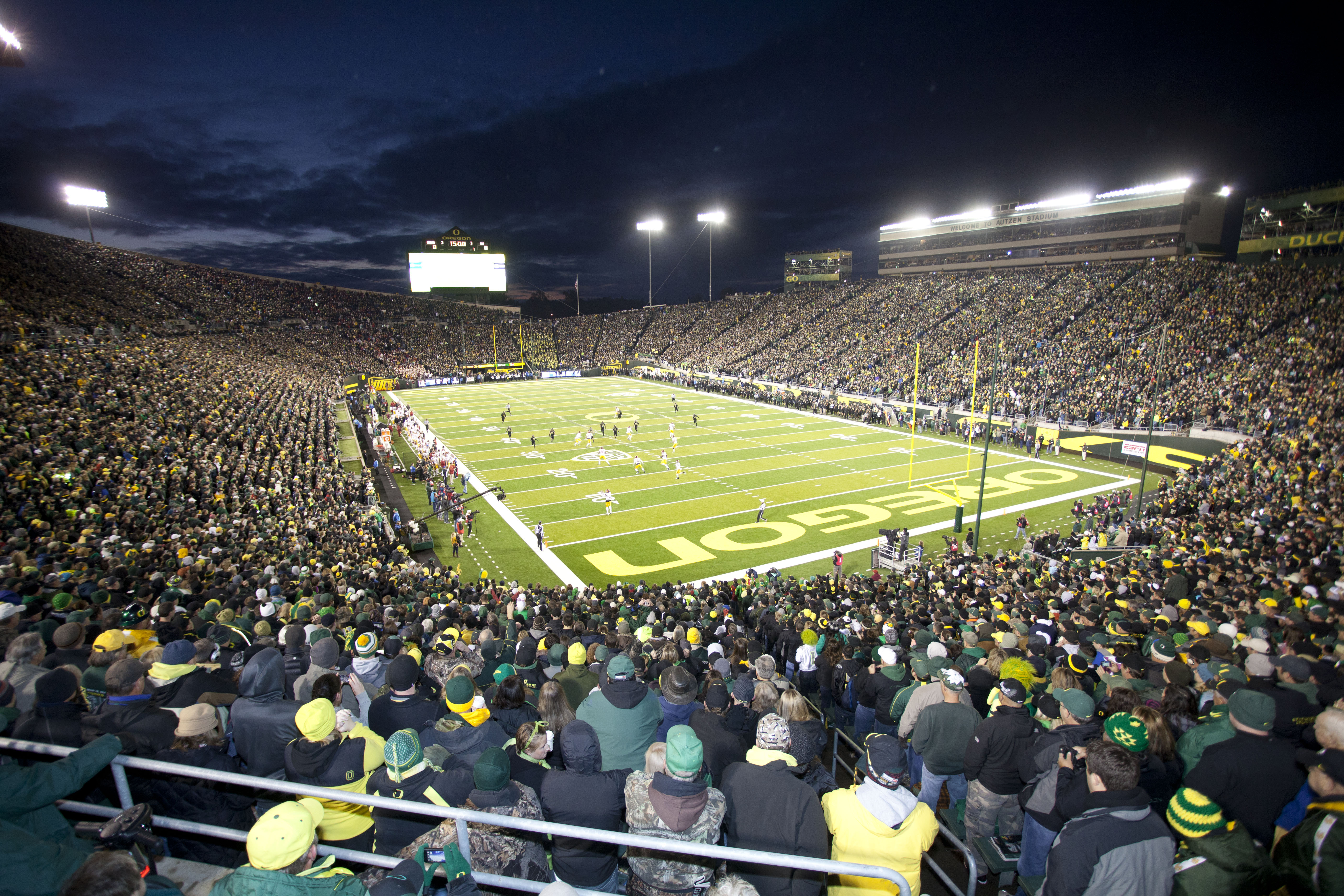 Image from a football game at Autzen Stadium on 19 Nov 2011, between Oregon and USC.